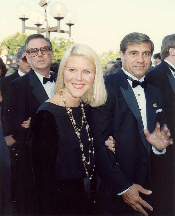 Alley Mills, photo taken at the 41st Emmy Awards 9/17/89